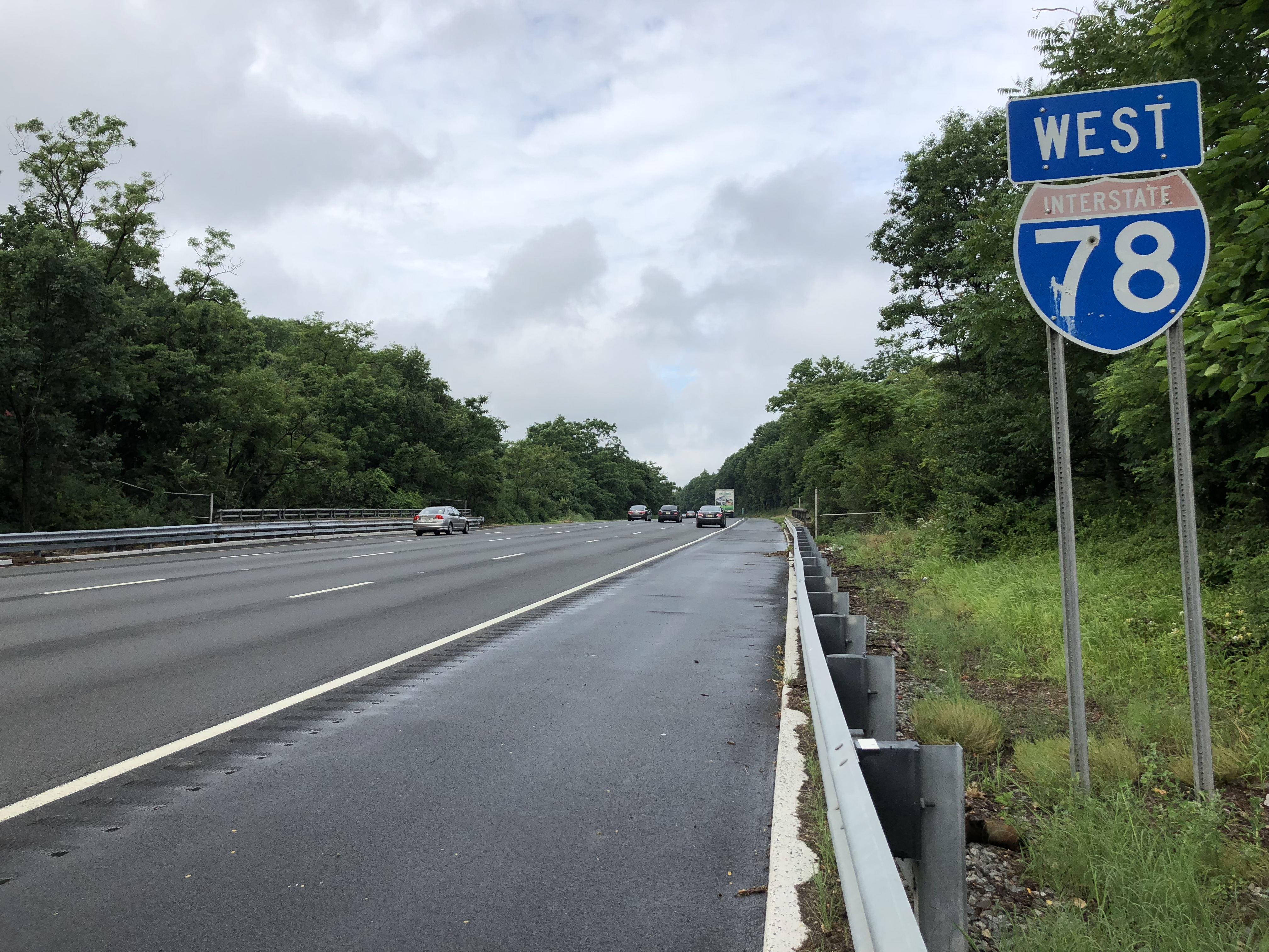 View west along Interstate 78 (Phillipsburg-Newark Expressway) between Exit 48 and Exit 43 in Springfield Township, Union County, New Jersey